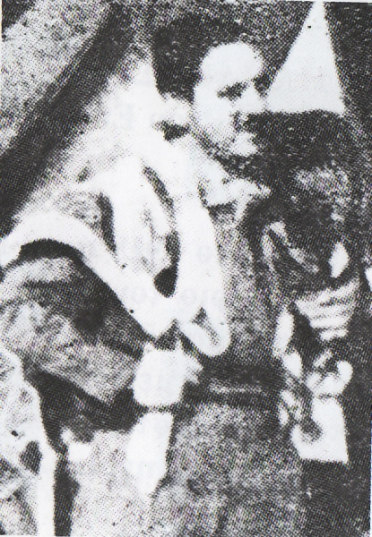 Greek pilot Sotiris Skandzikas (1921-1944). During the air raid of the of the 336th Greek Squadron on Crete on July 23, 1943, his Hurricane (HW250) was shot down by fire from the ground, Skandzikis was taken prisoner and sent to POW camp Stalag Luft III in Poland. He was participate in the "Great Escape" and he is one of "The Fifty" Allied airmen executed after the "Great Escape".